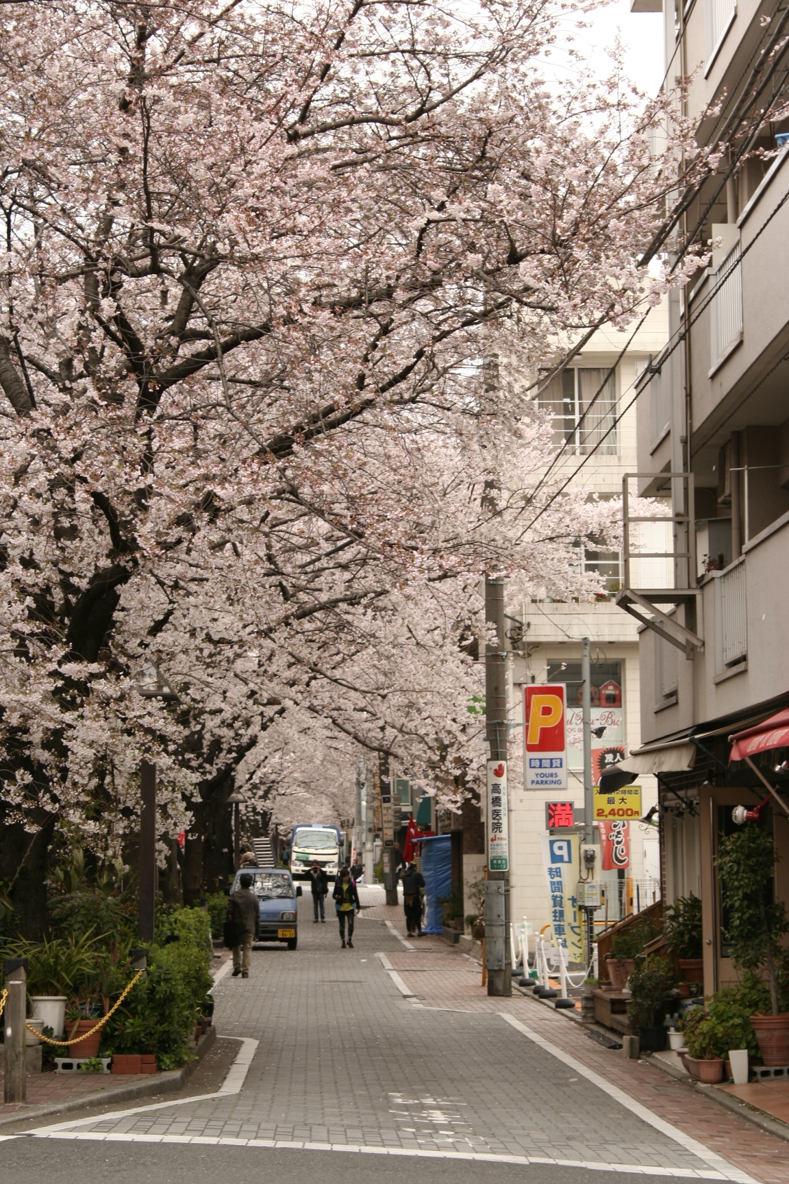 The street along the Meguro River near Tenjin-bashi in Aobadai 1-Chōme, Meguro-ku, Tokyo.